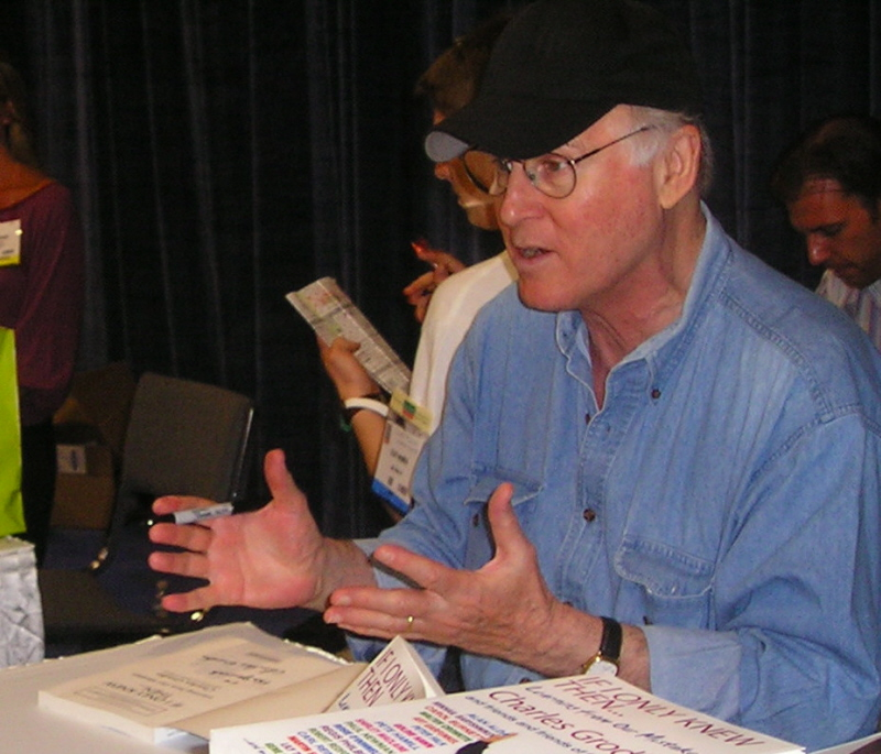 Charles Grodin at Book Expo in 2007 at New York's Javits Center